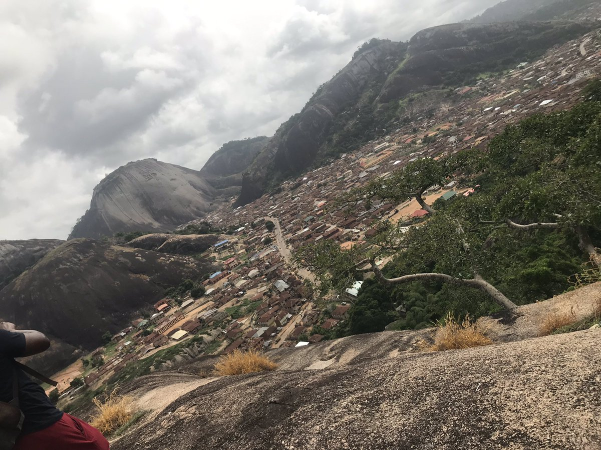 Idanre Hills is a scenic treasure! This is one of the many tourist attraction centres in Ondo State.